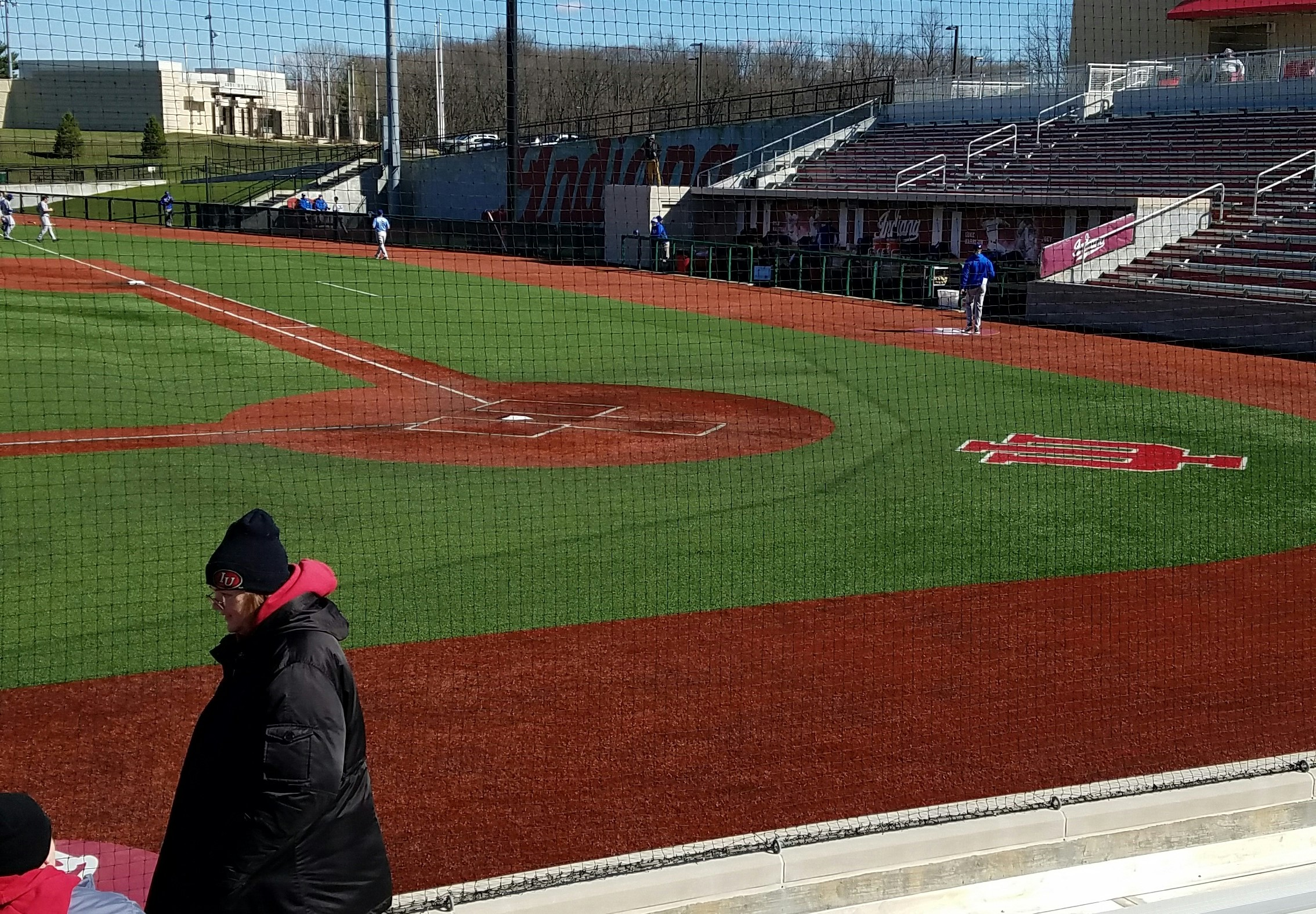 Home Plate from West Stands